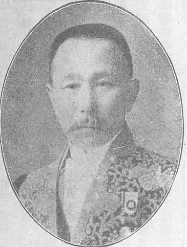 A politician from Japan,元田肇（Hajime Motoda）